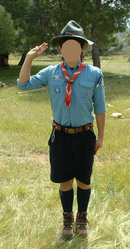 AGESCI Scout